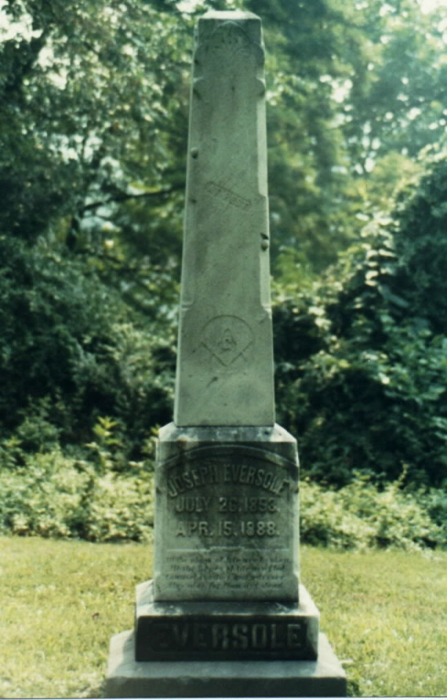 Grave of Joseph C. Eversole on Graveyard Hill in Hazard, Kentucky